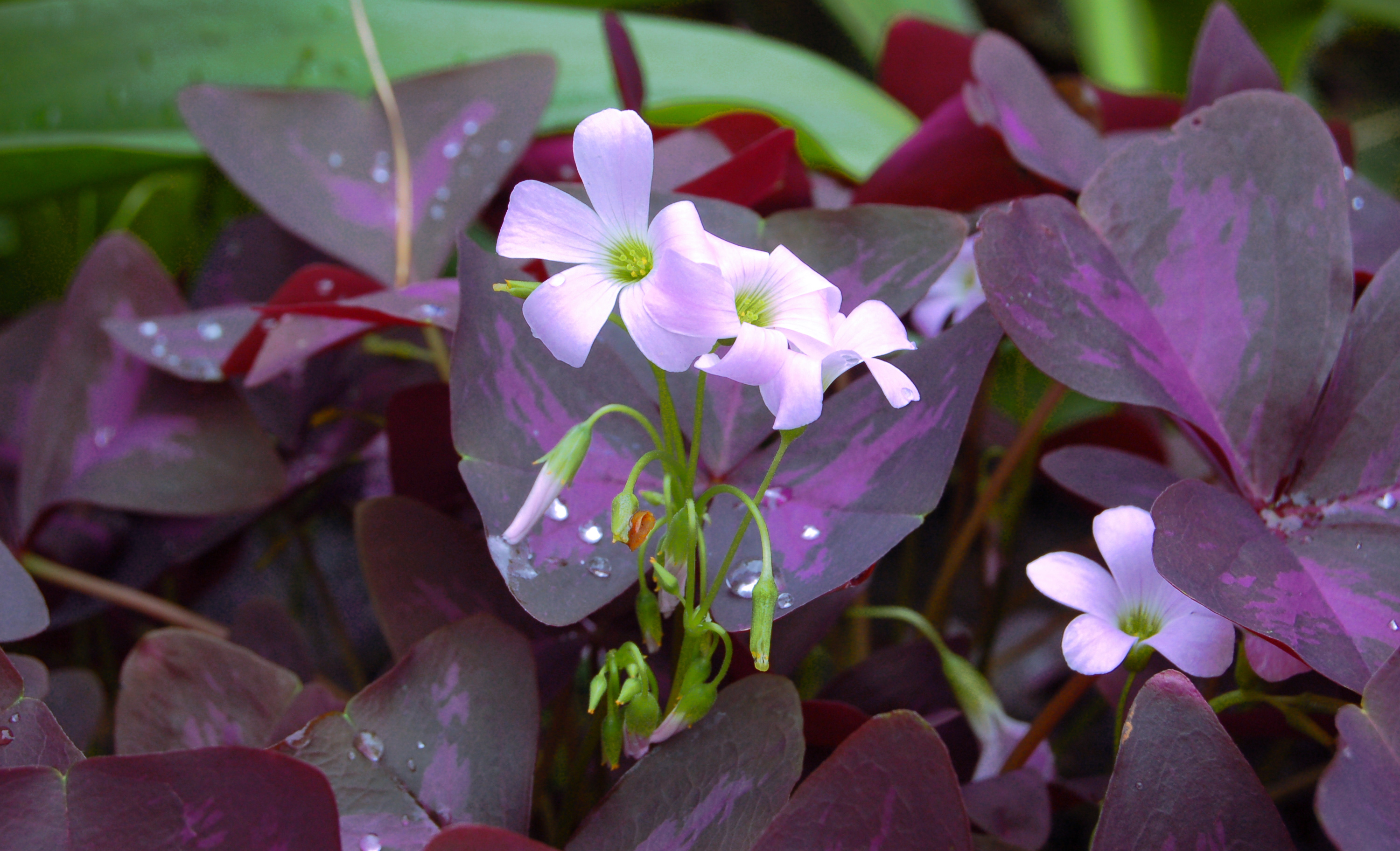 Picture of the flowers of the Purple Shamrock (Oxalis regnellii). Photo taken at the Chanticleer Garden where it was identified.